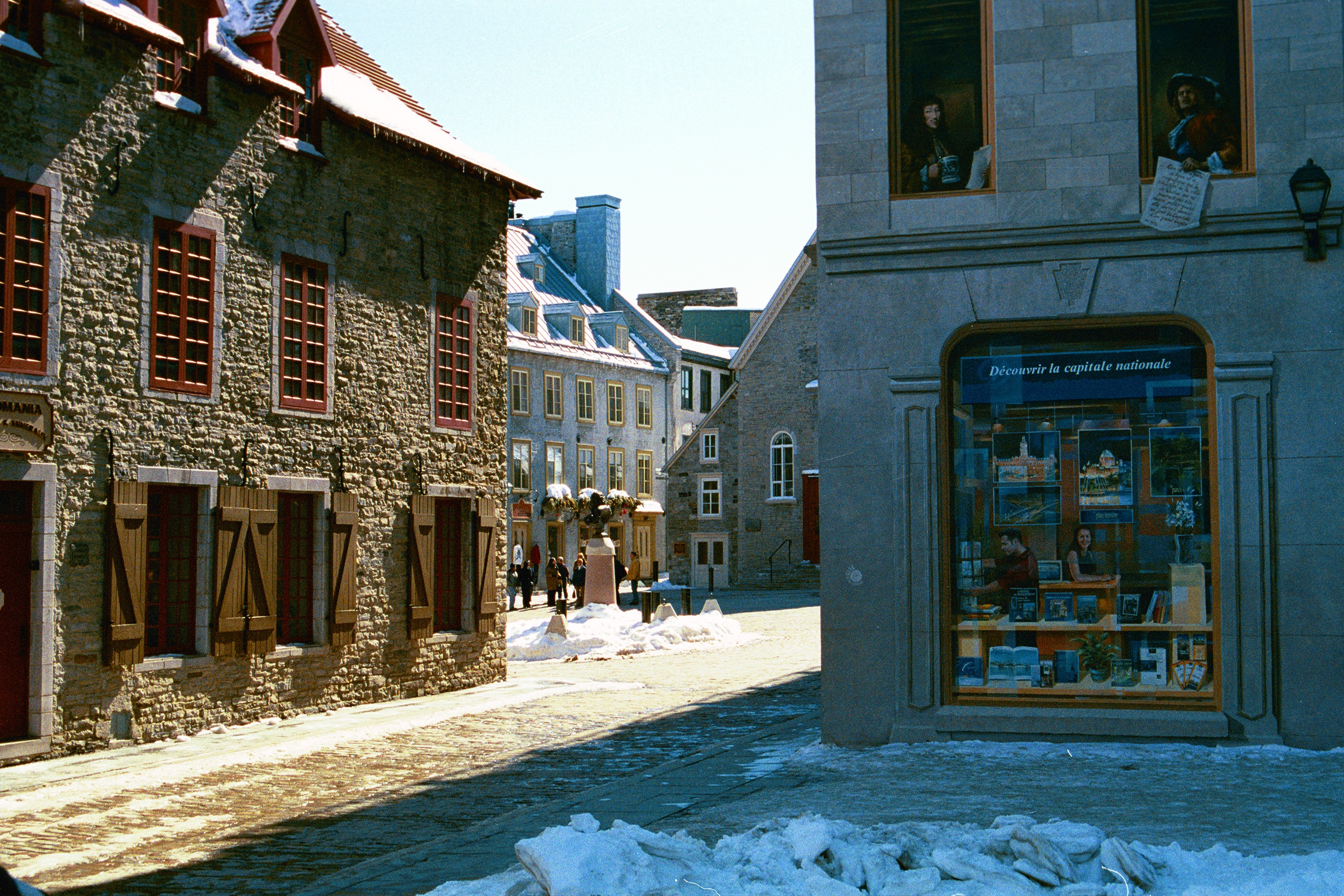 Place Royale, at the heart of the old city of Québec.